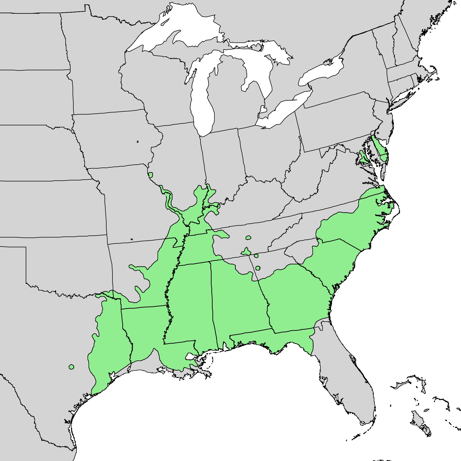 Range map of Quercus lyrata